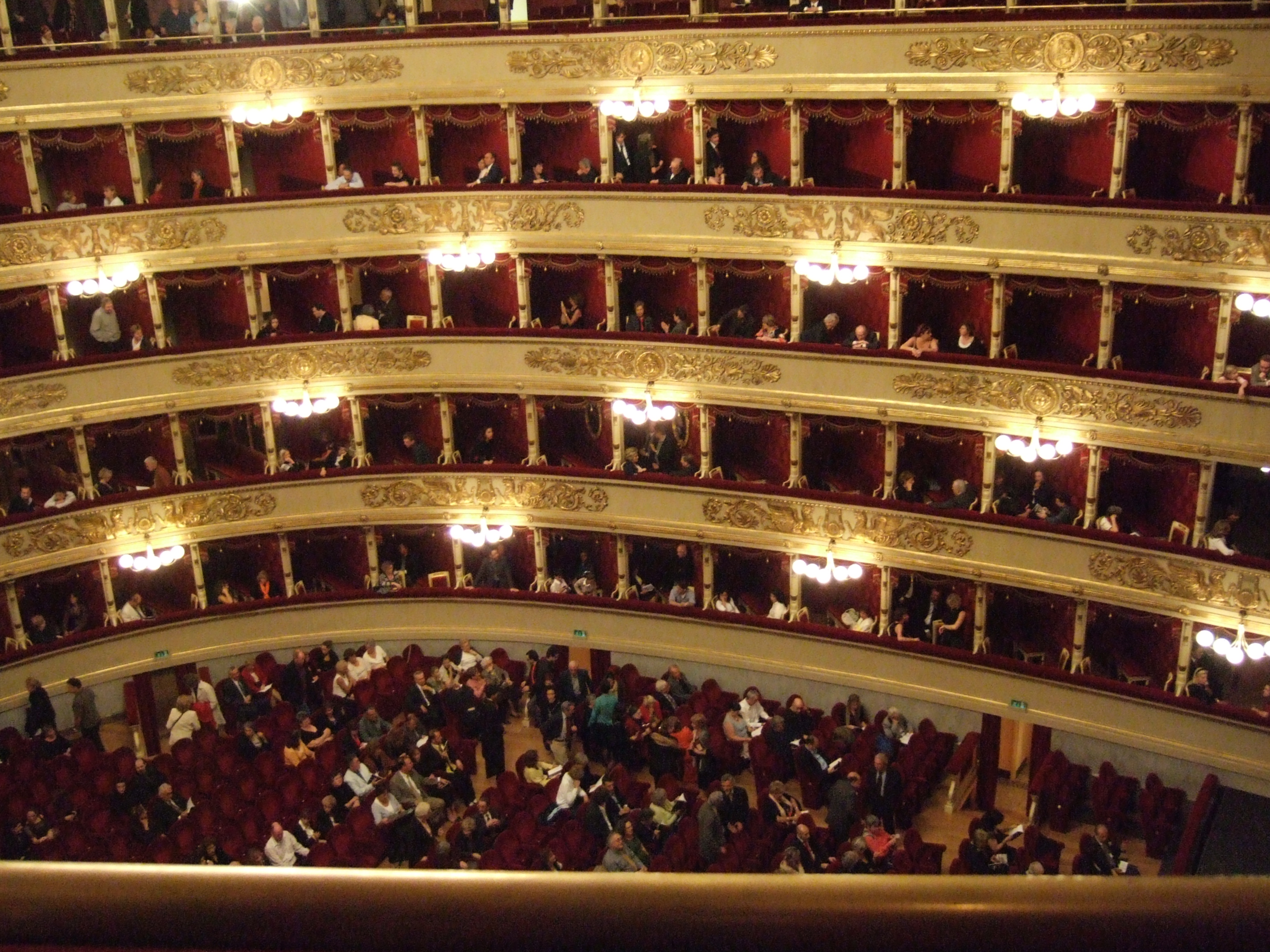 Unauthorised photo of the interior of teatro alla scala in Milan. By me.